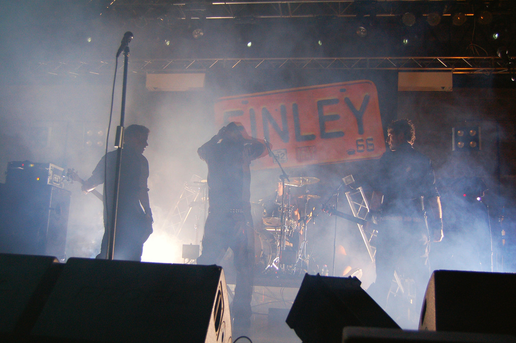 Quiet before the screams!